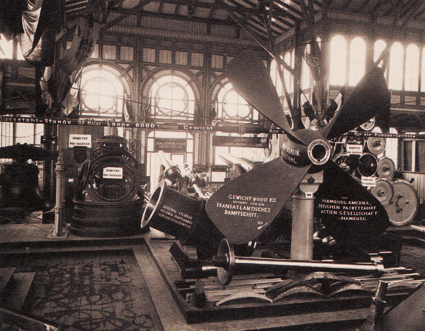 Exhibition of Bergbau und Gußstahlfabrikation in Bochum/Westfalen, Expo 1873